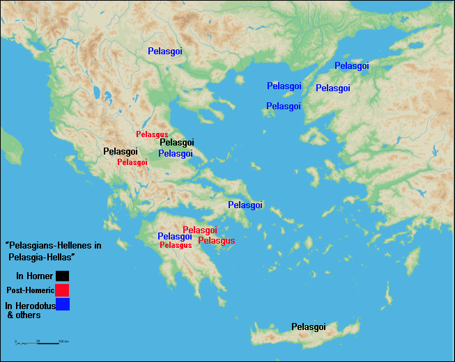 Map of "Pelasgian Presence mentioned by ancient writers"